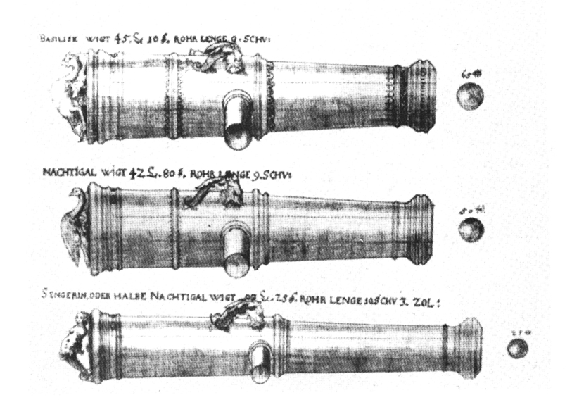 Three 17th century cannons from Bremen, Germany: Basilisk (“basilisk”), Nachtigall (“nightingale”) and Sängerin (“singer”).